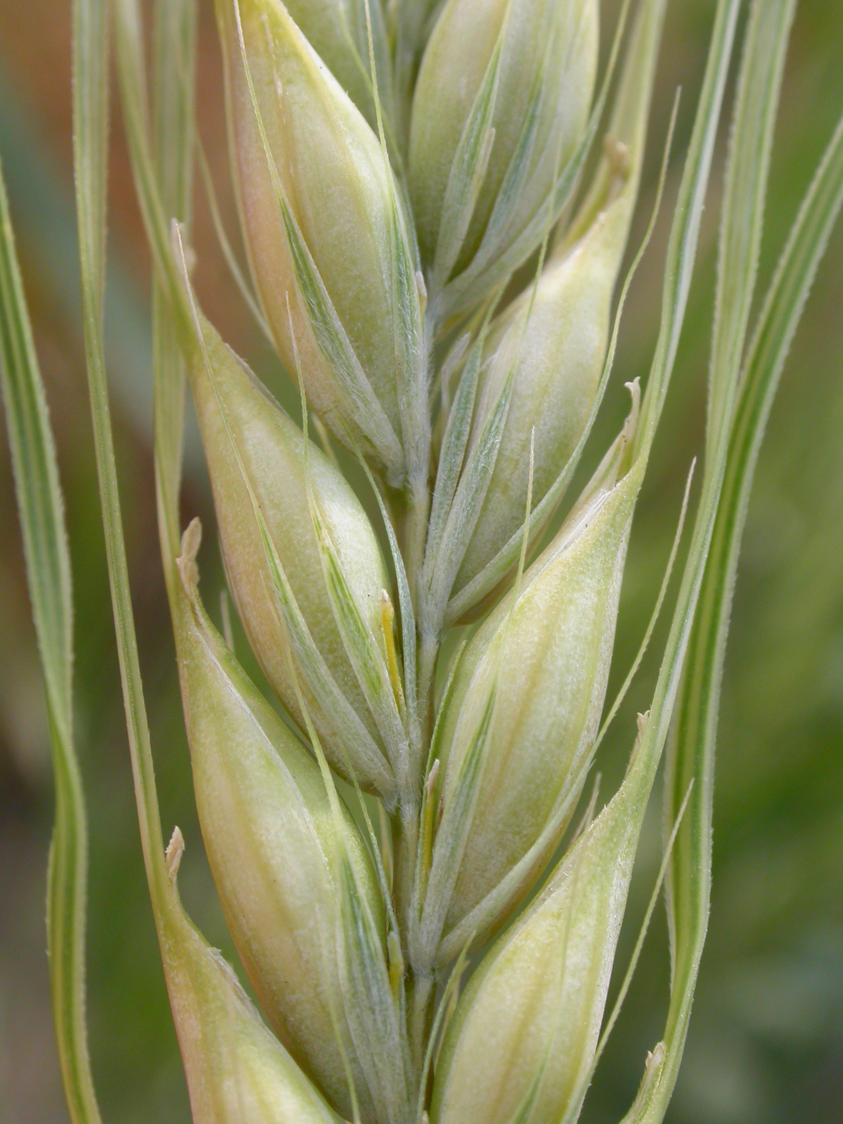 Two row barley, the lateral spikelets include aborted florets, which are the linear yellow structures in this photo.